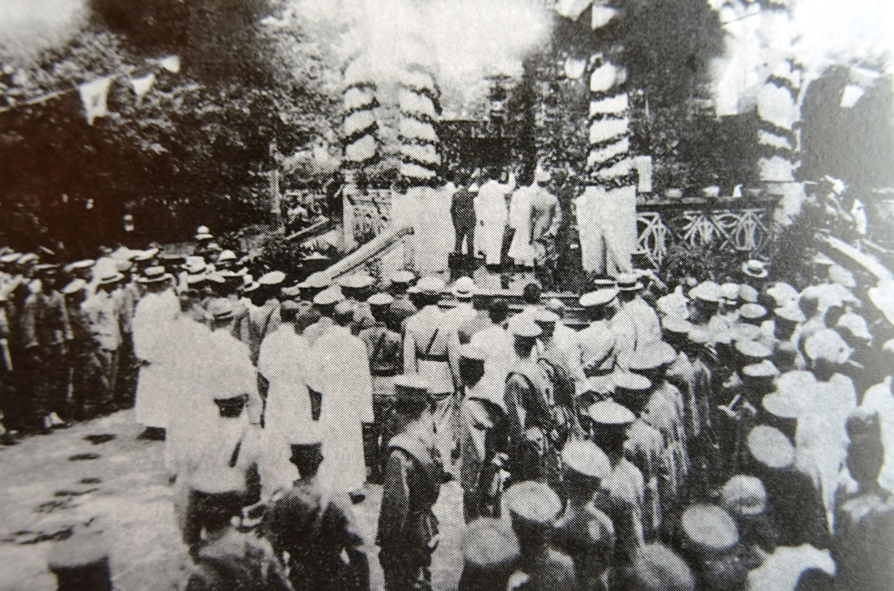 Secretaries of Kwangtung Provincial Government sworning in at the musicial pavilion in Central Park, Canton, Kwangtung on 3 July 1925 粵語: 1925年7月3號，廣東省政府啲廳長喺廣州中央公園嘅音樂亭宣誓就職陣嘅情形